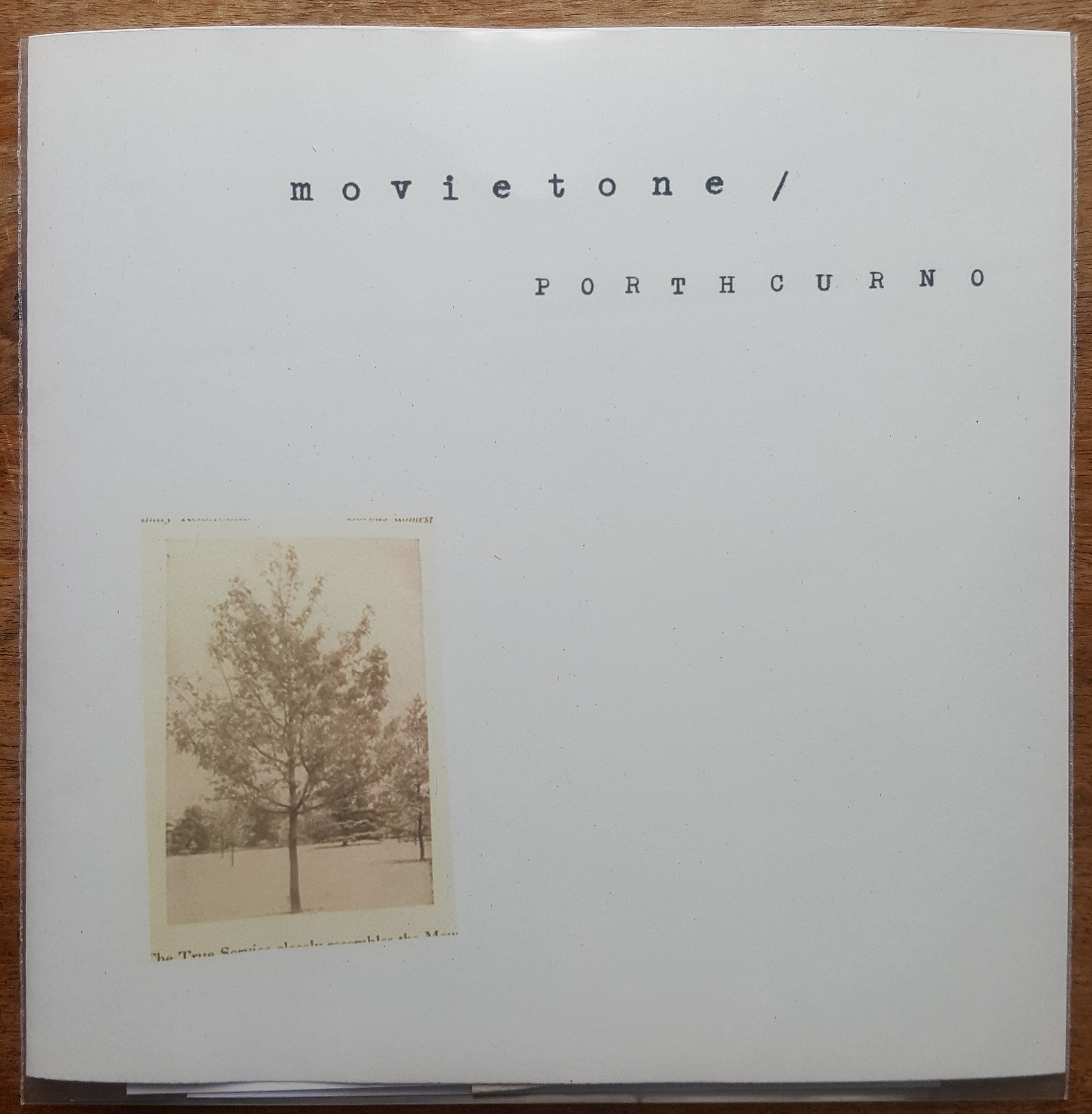 Movietone, 'Porthcurno' live at the Knitting Factory New York,10th November 2000, 7 inch Flexi Disc, (Radio/ON 2020)